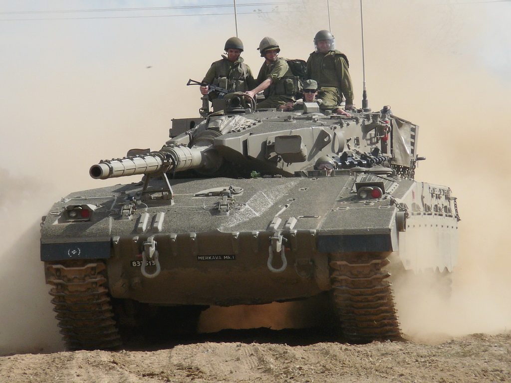 Israeli Merkava Mk.IB tank during 7th 'Tank Day' in Military Technical Museum Lešany.